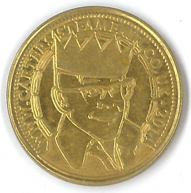 Carters Steam Fair 2014 minted token coin obverse, featuring likeness of Harry Hill